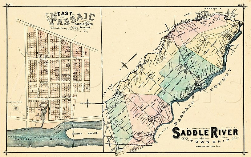 Saddle River Township, New Jersey. From the Atlas of Bergen Co. New Jersey.